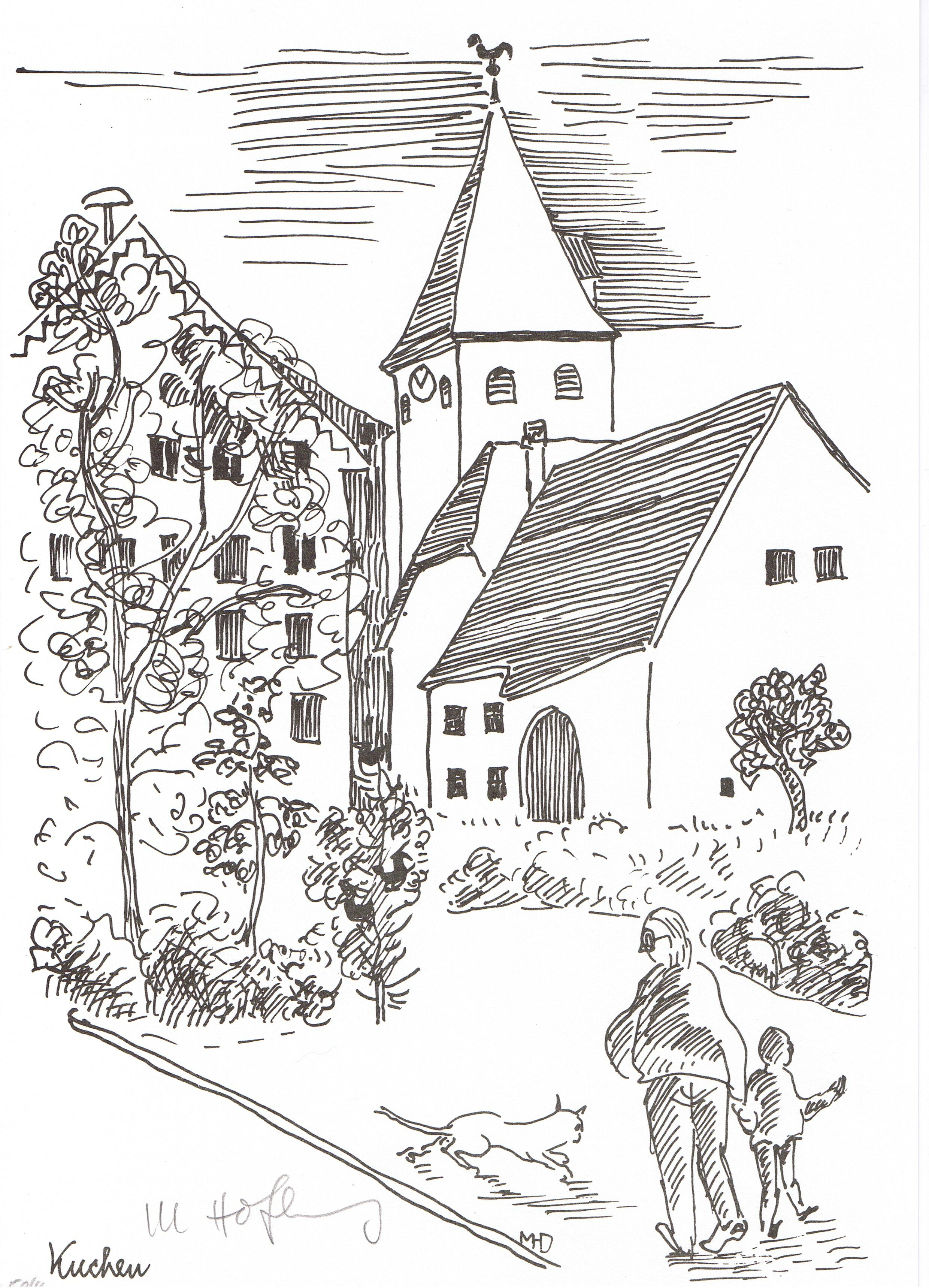 Kuchen, ink drawing, 20 x 30 cm